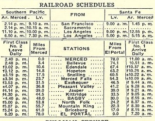 Timetable showing service of the Yosemite Valley Railroad for 1915-1916.